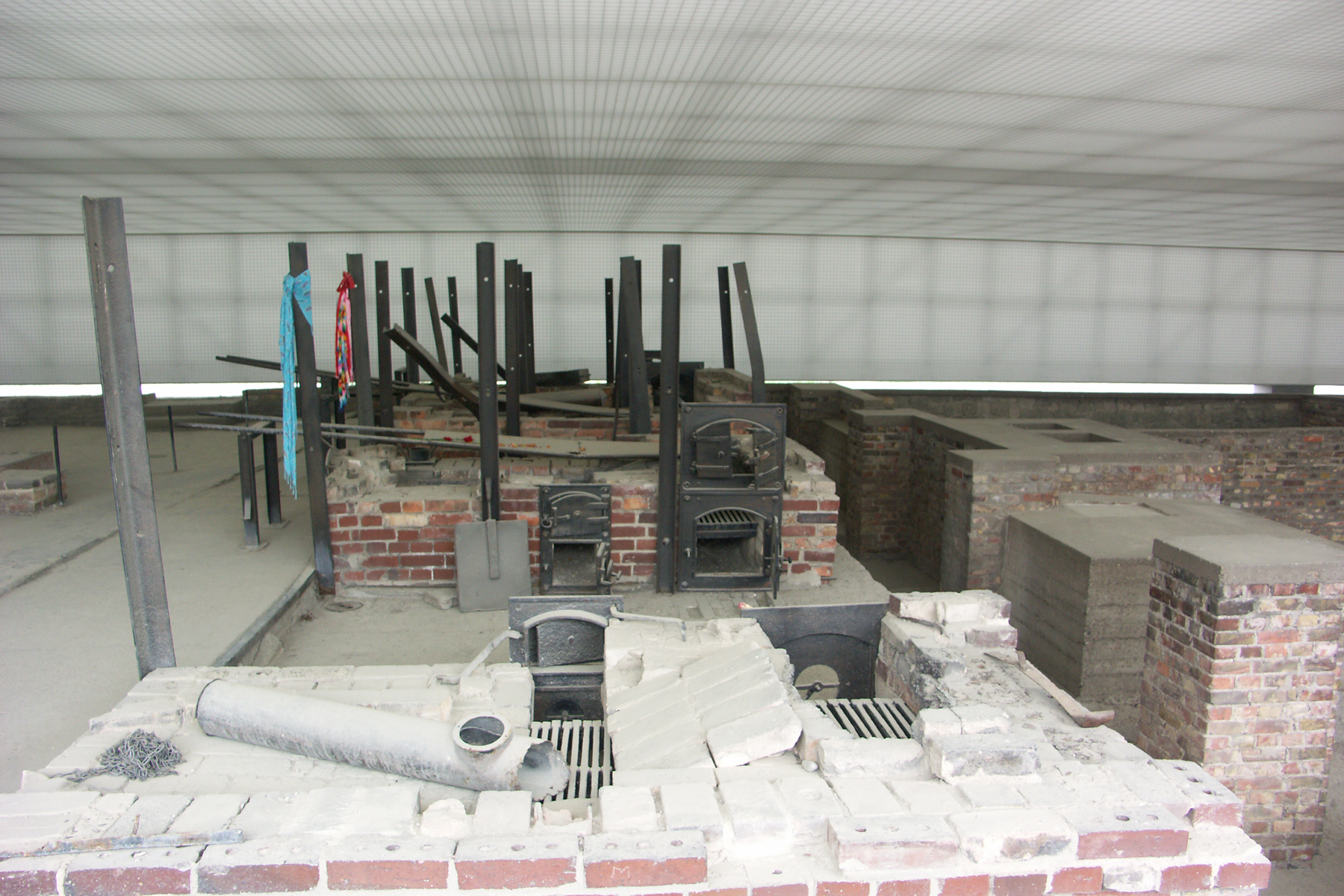 Sachsenhausen Crematorium